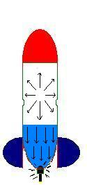 Schema che illustra le forze interne base che si sviluppano in un razzo ad acqua. This scheme show the forces inside a water rocket.